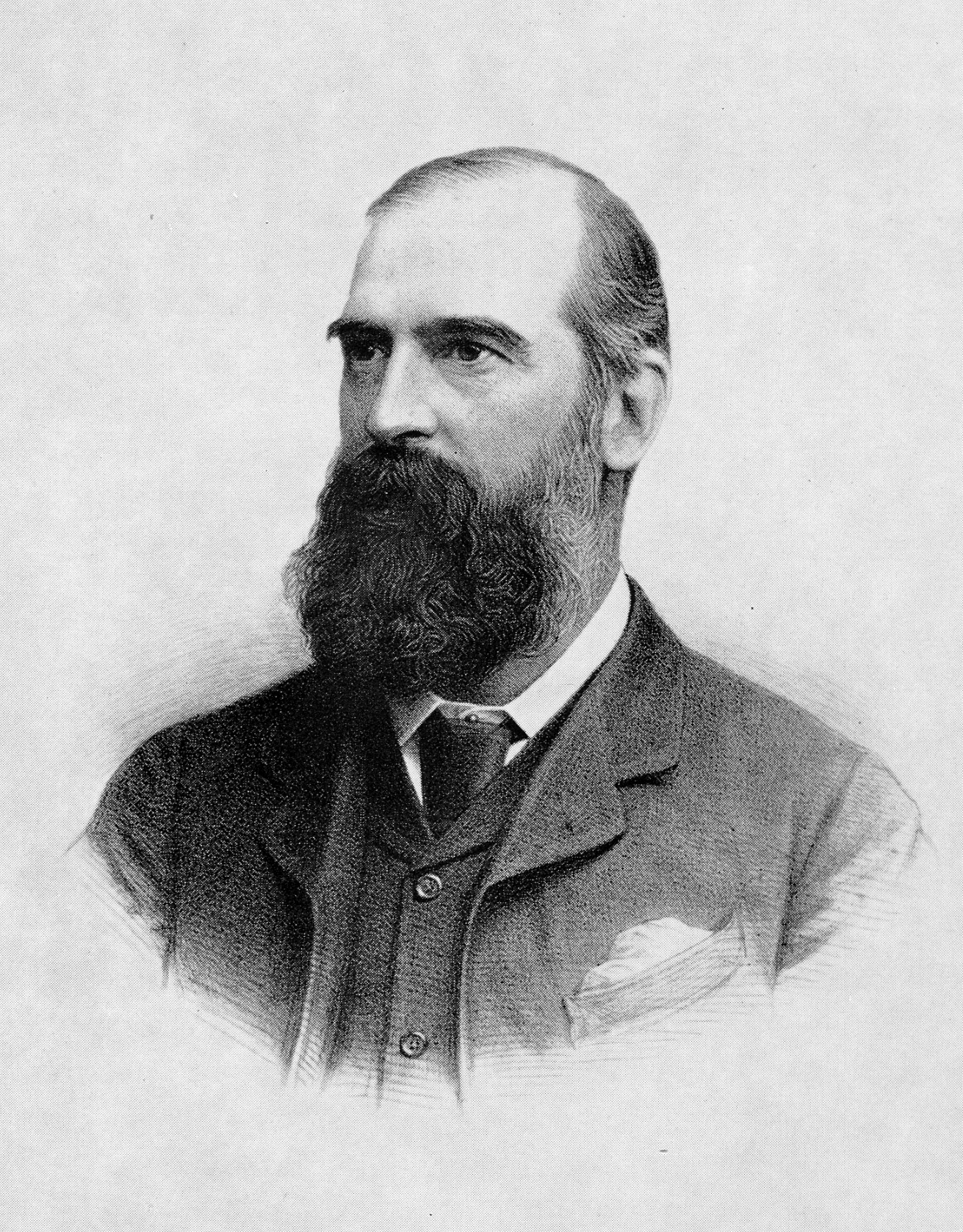 Portrait of Sir John Brunner, 1st Baronet (1842-1919)